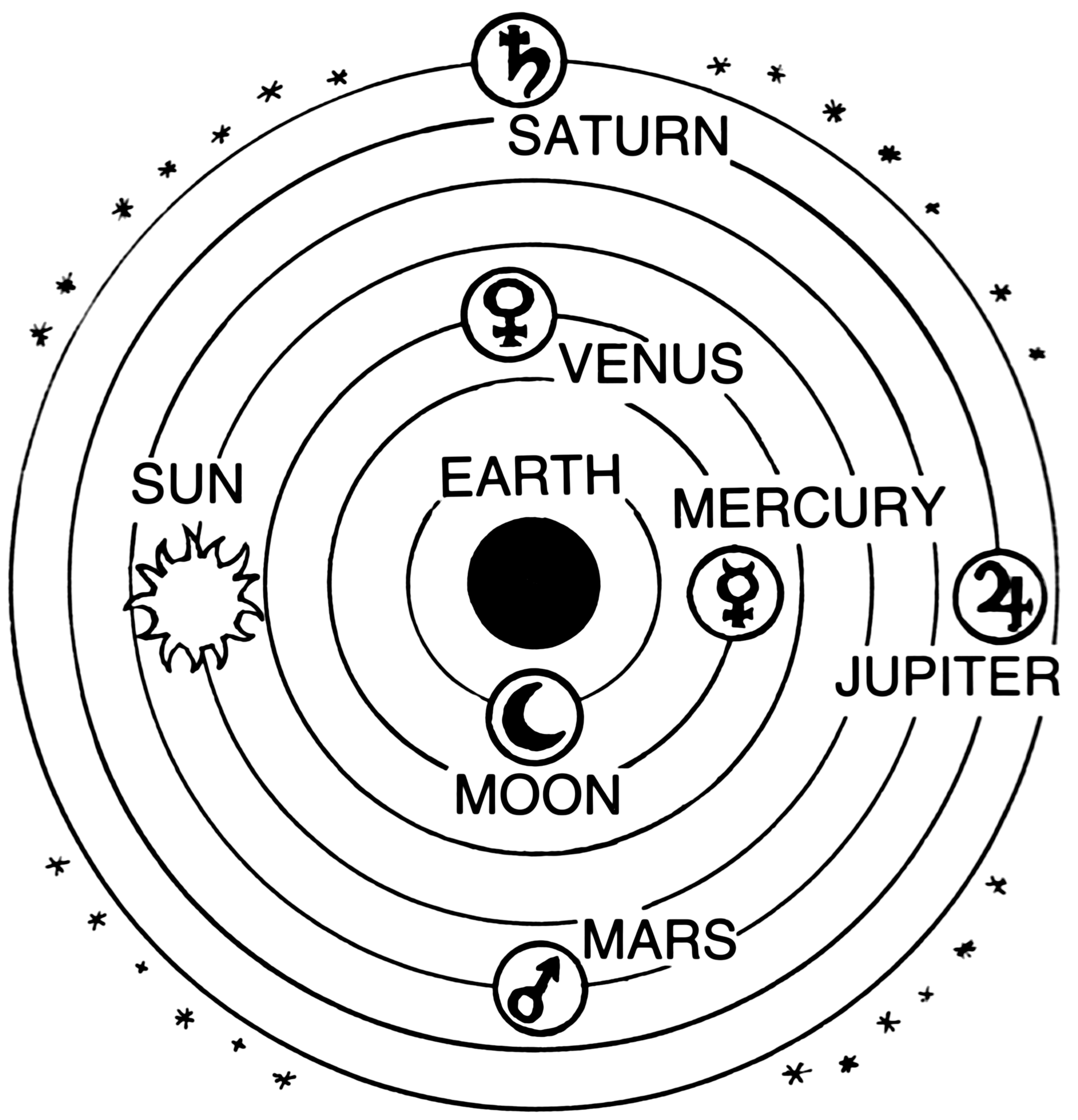 Line art drawing of ptolemaic system.